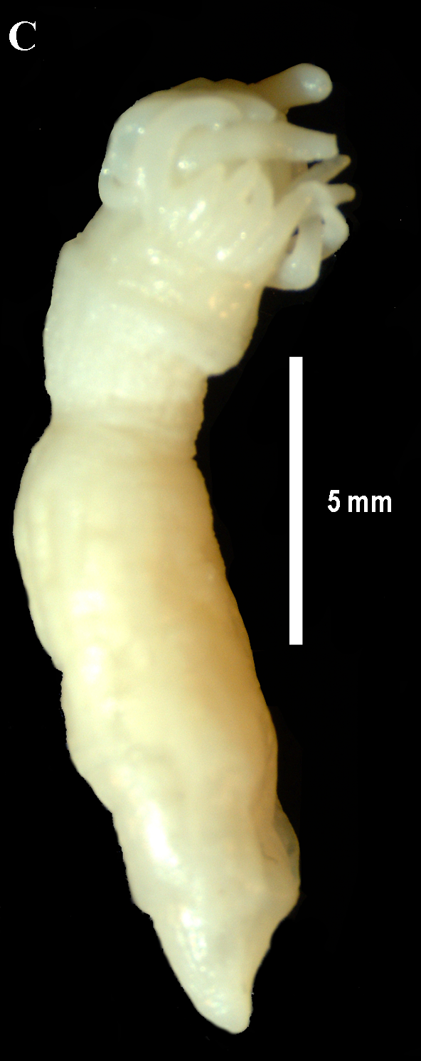 External anatomy and habitus of Edwardsiella andrillae n. sp.